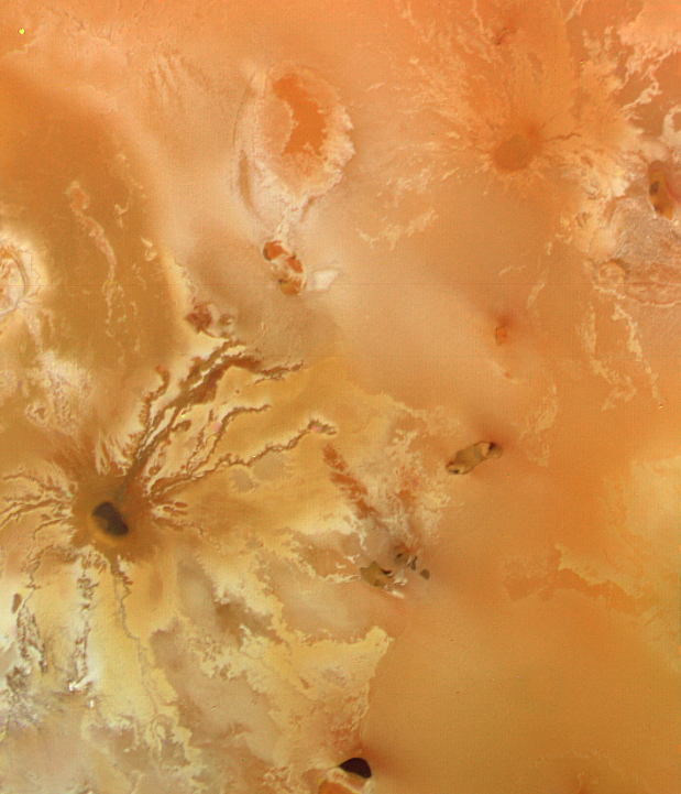 Original Caption Released with Image: This color picture of Io, Jupiter's innermost Galilean satellite, was taken by Voyager 1 on the morning of March 5, 1979 at a range of 128,500 kilometers (77,100 miles). It is centered at 8 south latitude and 317 longitude. The width of the picture is about 1000 kilometers (600 miles). The diffuse reddish and orangish colorations are probably surface deposits of sulfur compounds, salts and possibly other volcanic sublimates. The dark spot with the irregular radiating pattern near the bottom of the picture may be a volcanic crater with radiating lava flows. For TIFF Version see: [1] Suggested for English Wikipedia:alternative text for images: diffuse reddish and orangish colorations in a field of smooth orange colour are probably surface deposits of sulfur compounds, salts and possibly other volcanic sublimates. The dark spot with the irregular radiating pattern near the bottom of the picture may be a volcanic crater with radiating lava flows.